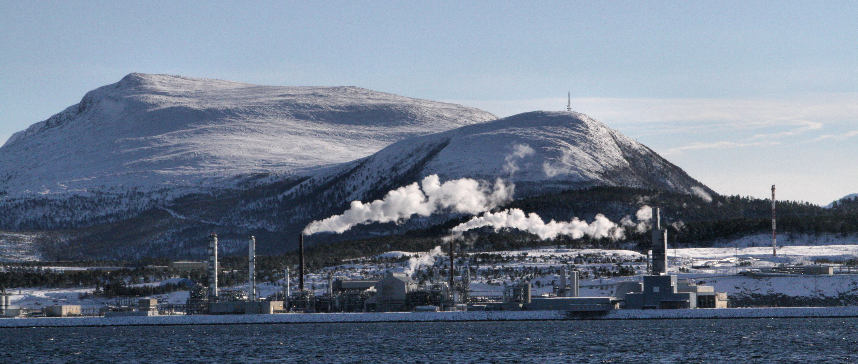 Tjeldbergodden, Norway, winter 2005-2006